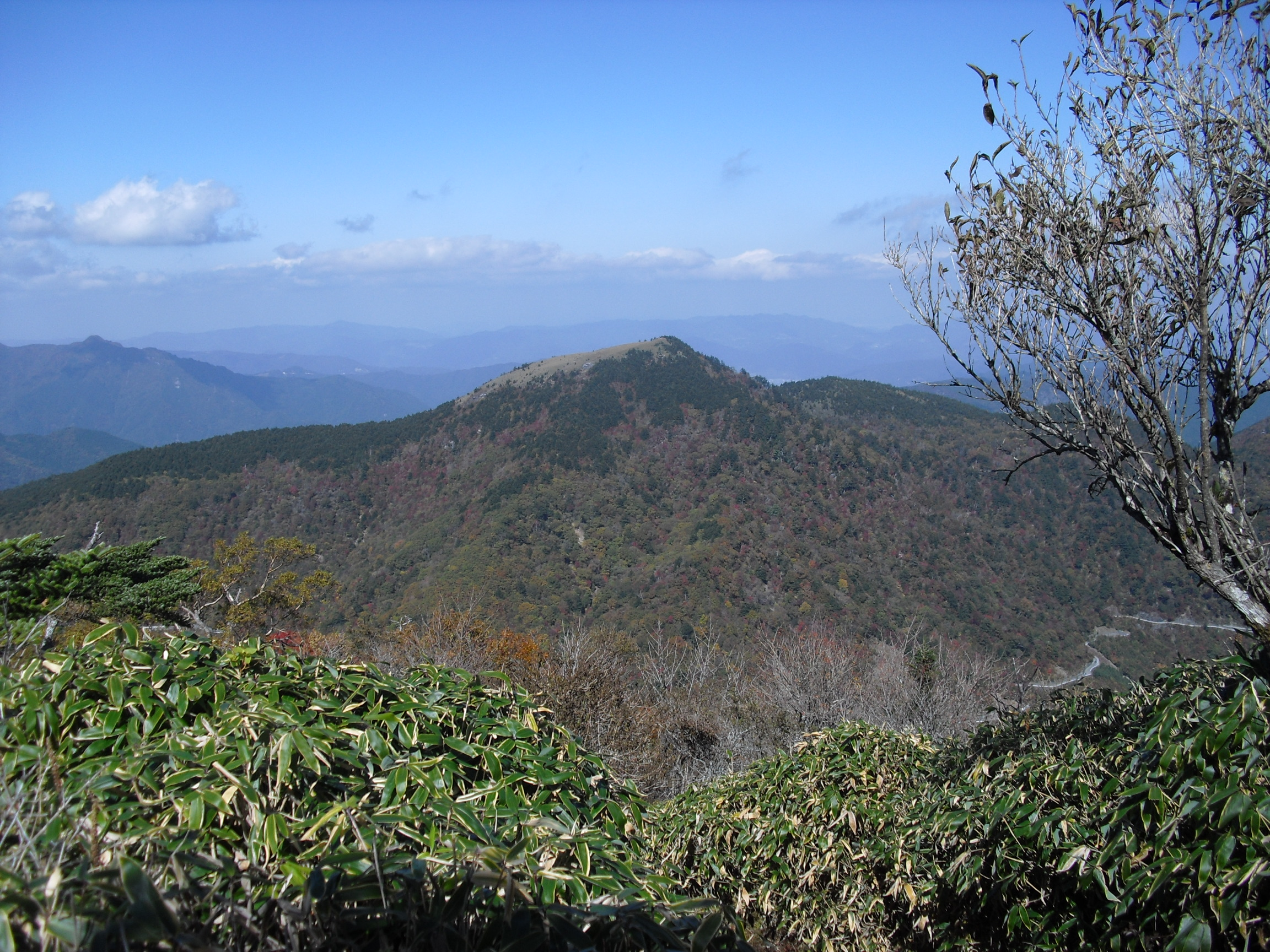 Mount Maruzasa (Maruzasa-yama) seen from the south by east. Taken from Mount Tsurugi.